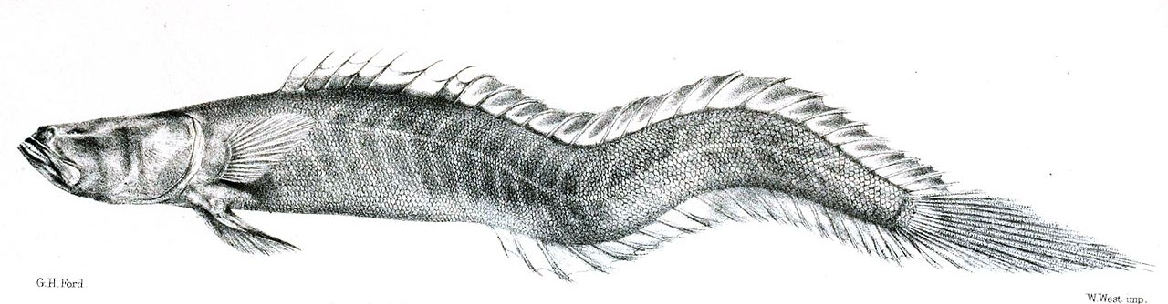 Gobioides sagitta (Günther, 1862)